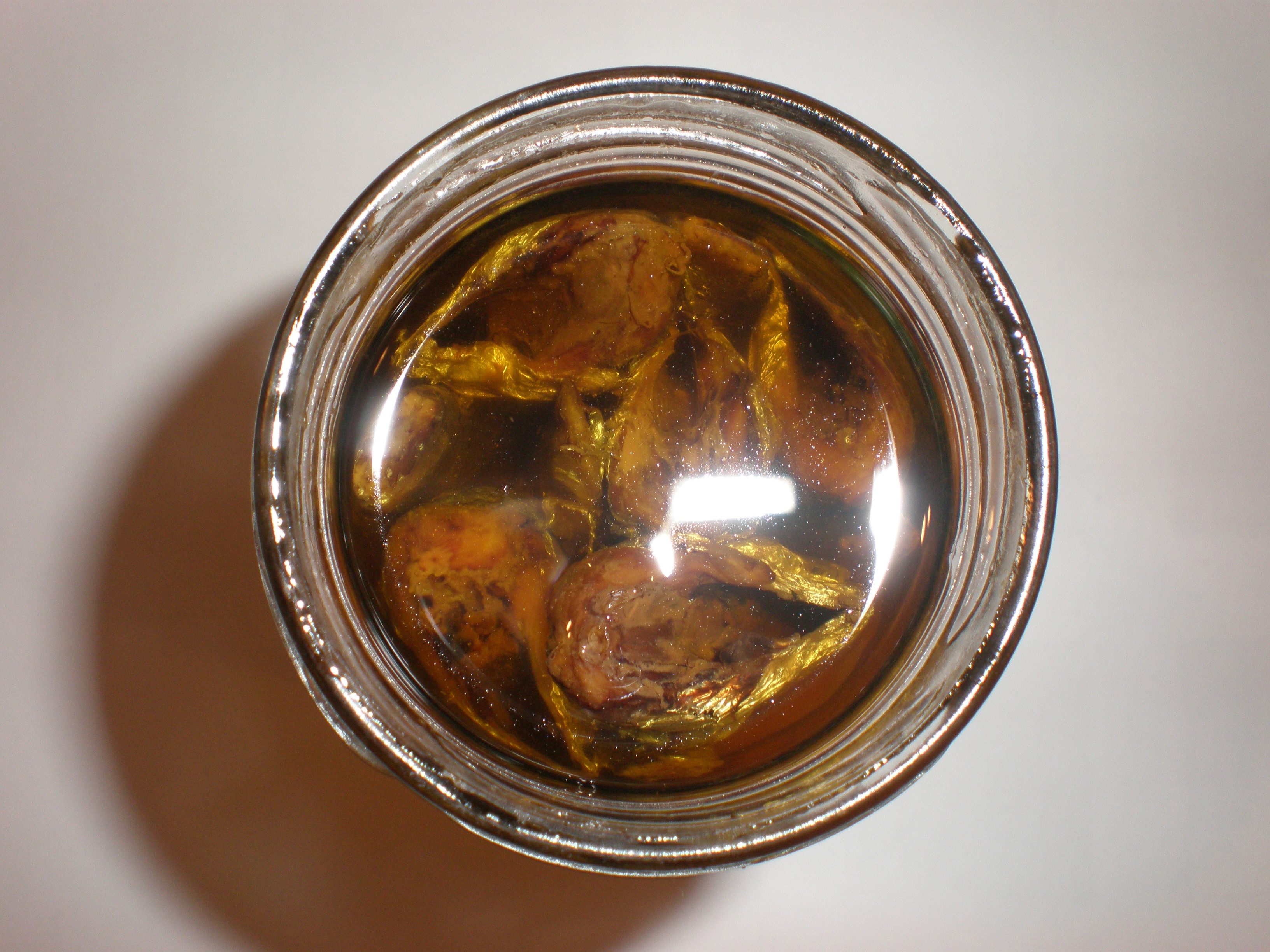 A jar of Spanish-style sardines in corn oil from the Philippines, made by Montaño.